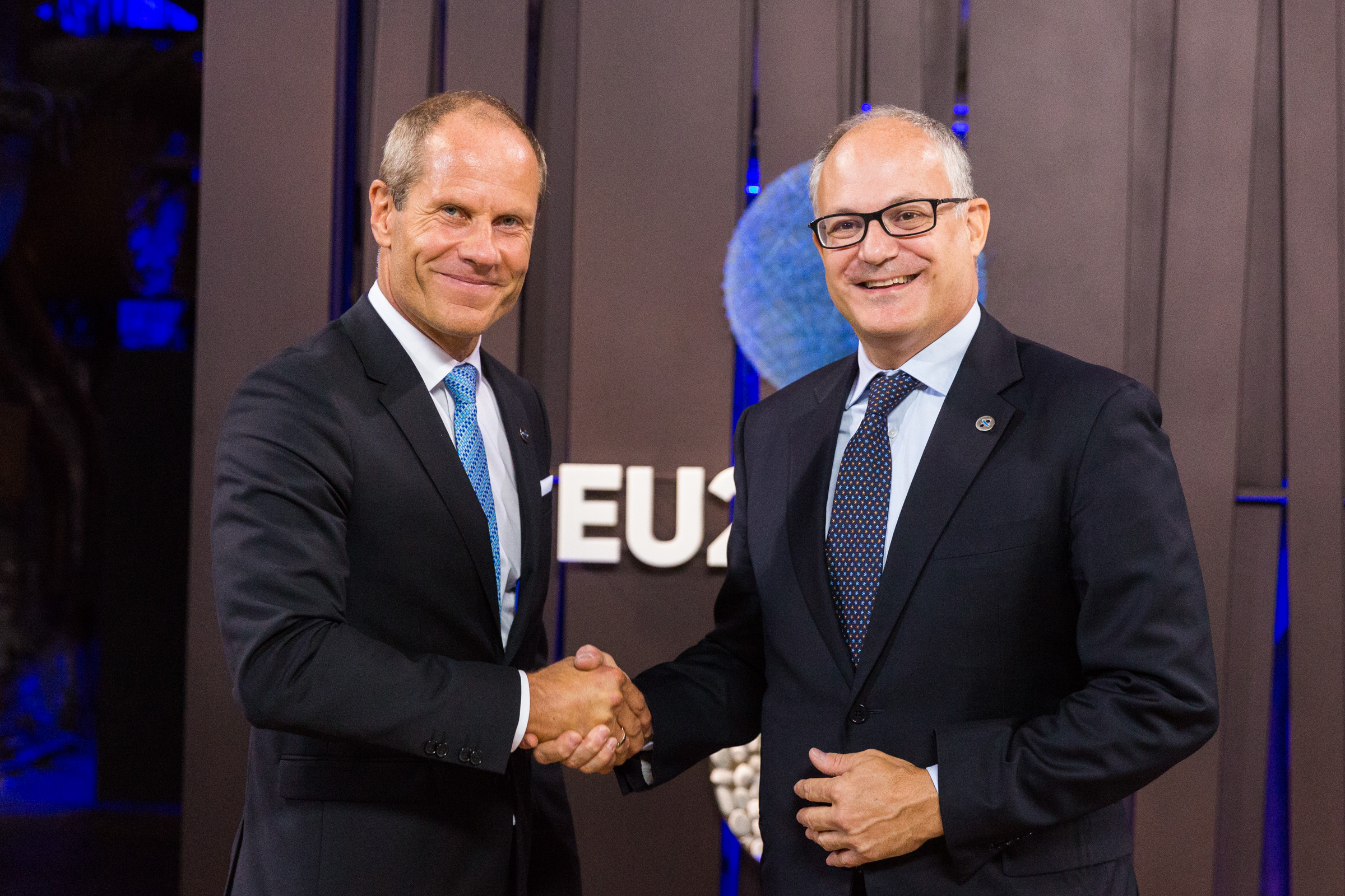 Informal meeting of economic and financial affairs ministers